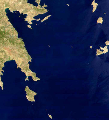 Satellite picture of Myrtoan Sea.